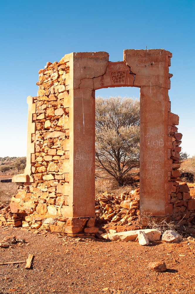 All that is left of the gold rush town of Burtville.